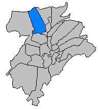 Map of Luxembourg City, Luxembourg, with the boundaries of the city's twenty-four quarters demarcated and the quarter of Muhlenbach highlighted in blue.